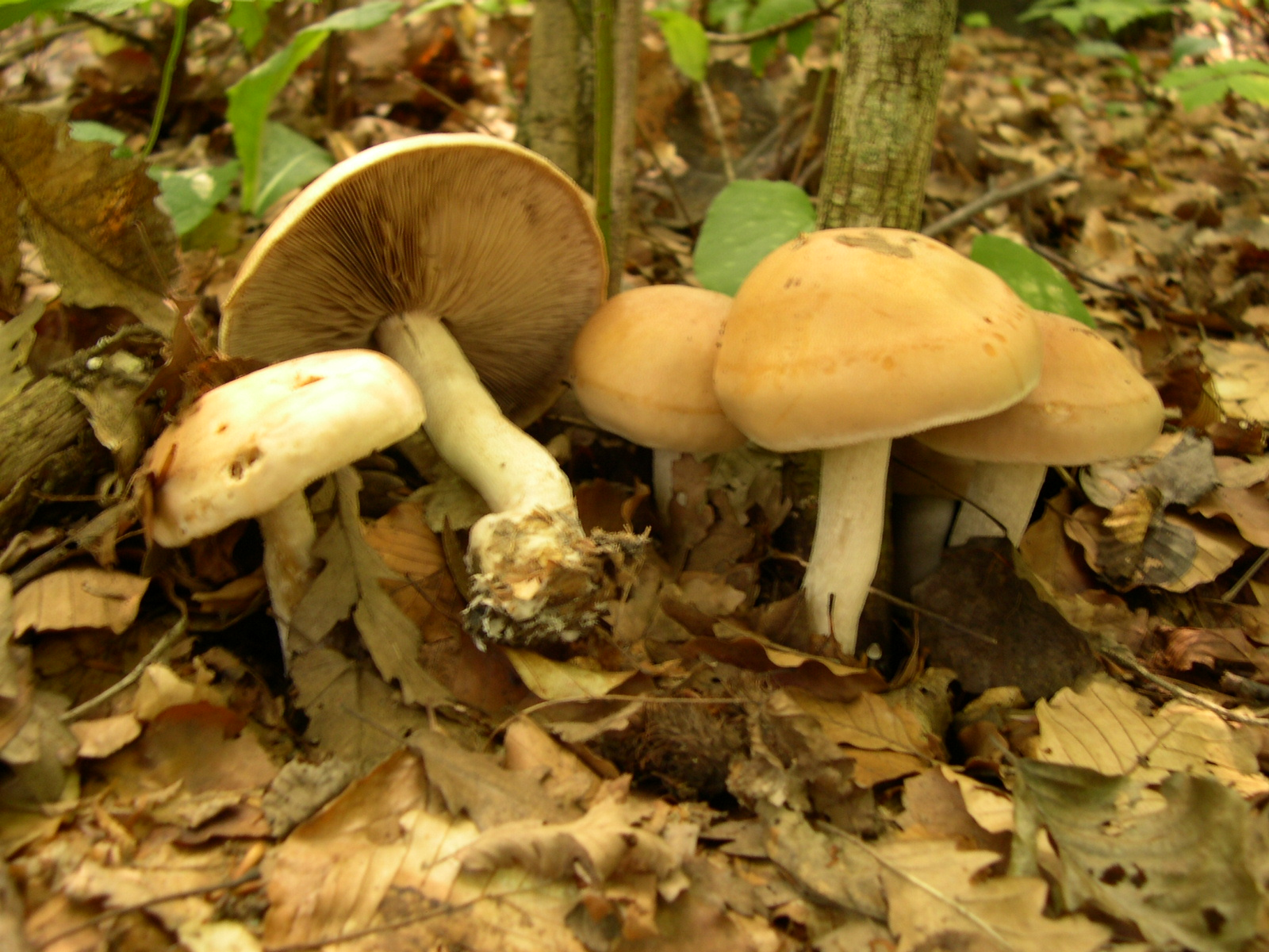 Hebeloma sinapizans (Fr.) Sacc. synonimous Agaricus sinapizans Fr. September 2005 - Piacenza's mountains - Italy by Archenzo